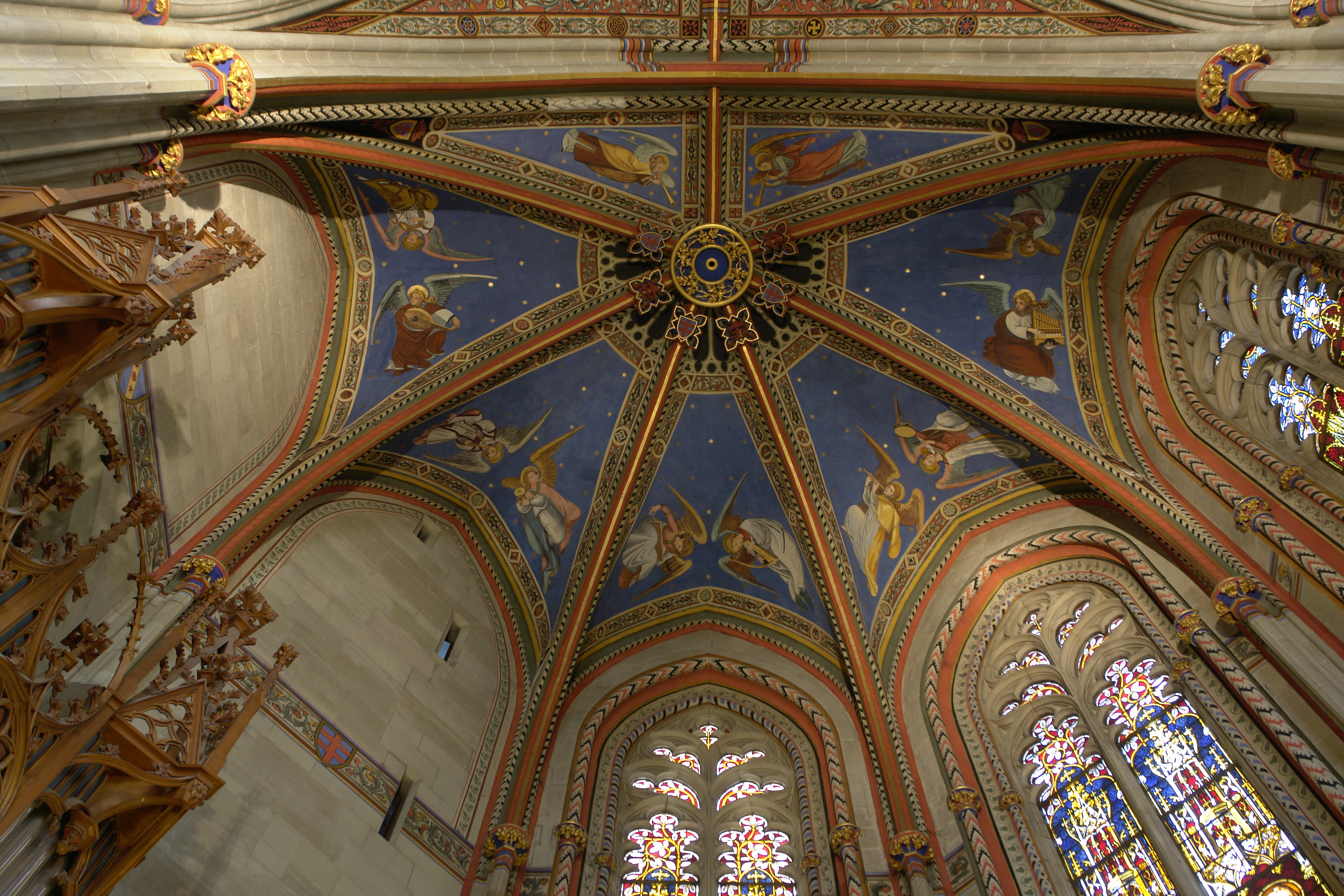 Ceiling of the Maccabees Chapel, Saint-Pierre cathedral, Geneva, Switzerland.